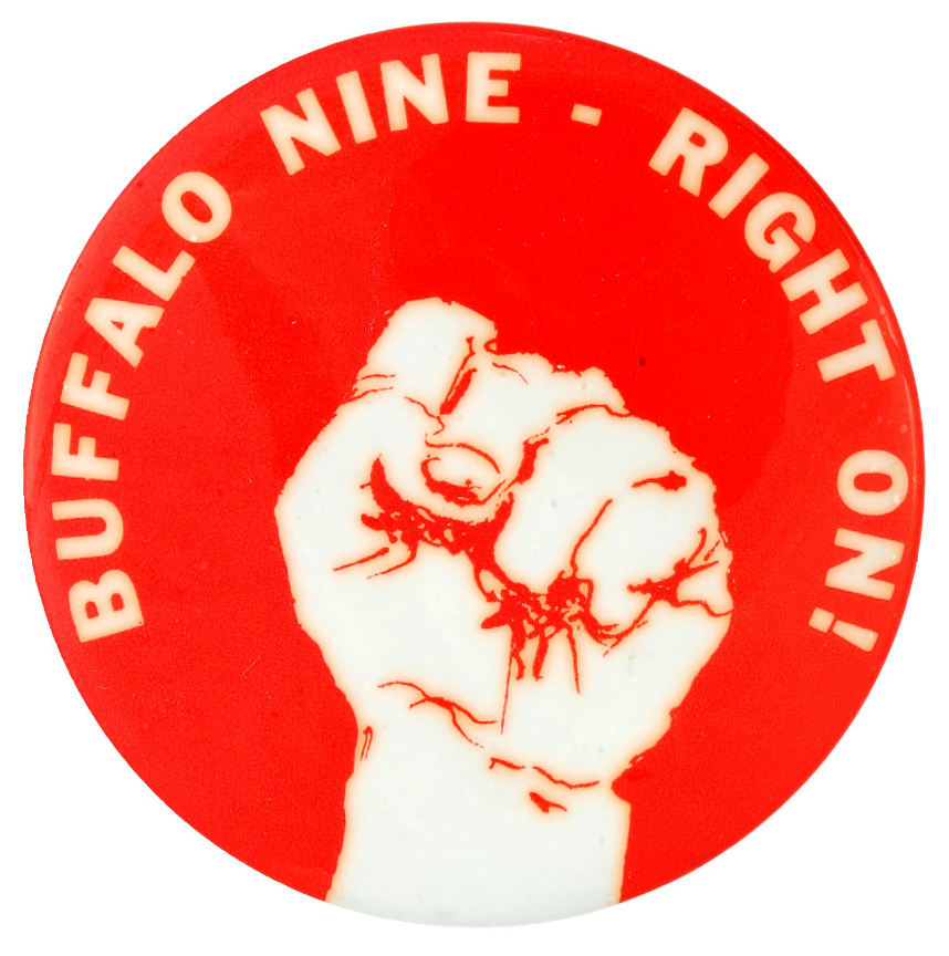 The original Buffalo Nine shirt pin